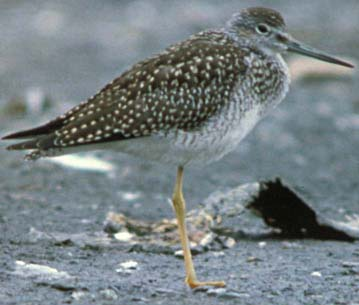 Greater Yellowlegs (Tringa melanoleuca) from USFWS